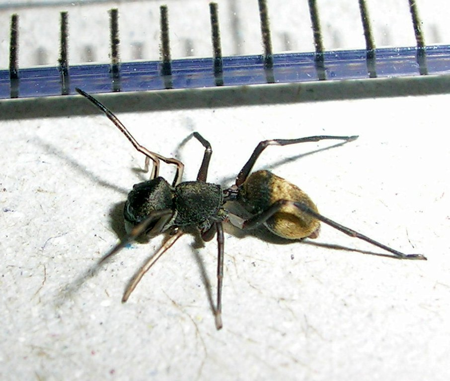 Myrmarachne sp. Bangalore, India